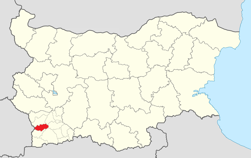 Location map of Kresna Municipality within Bulgaria and Blagoevgrad province